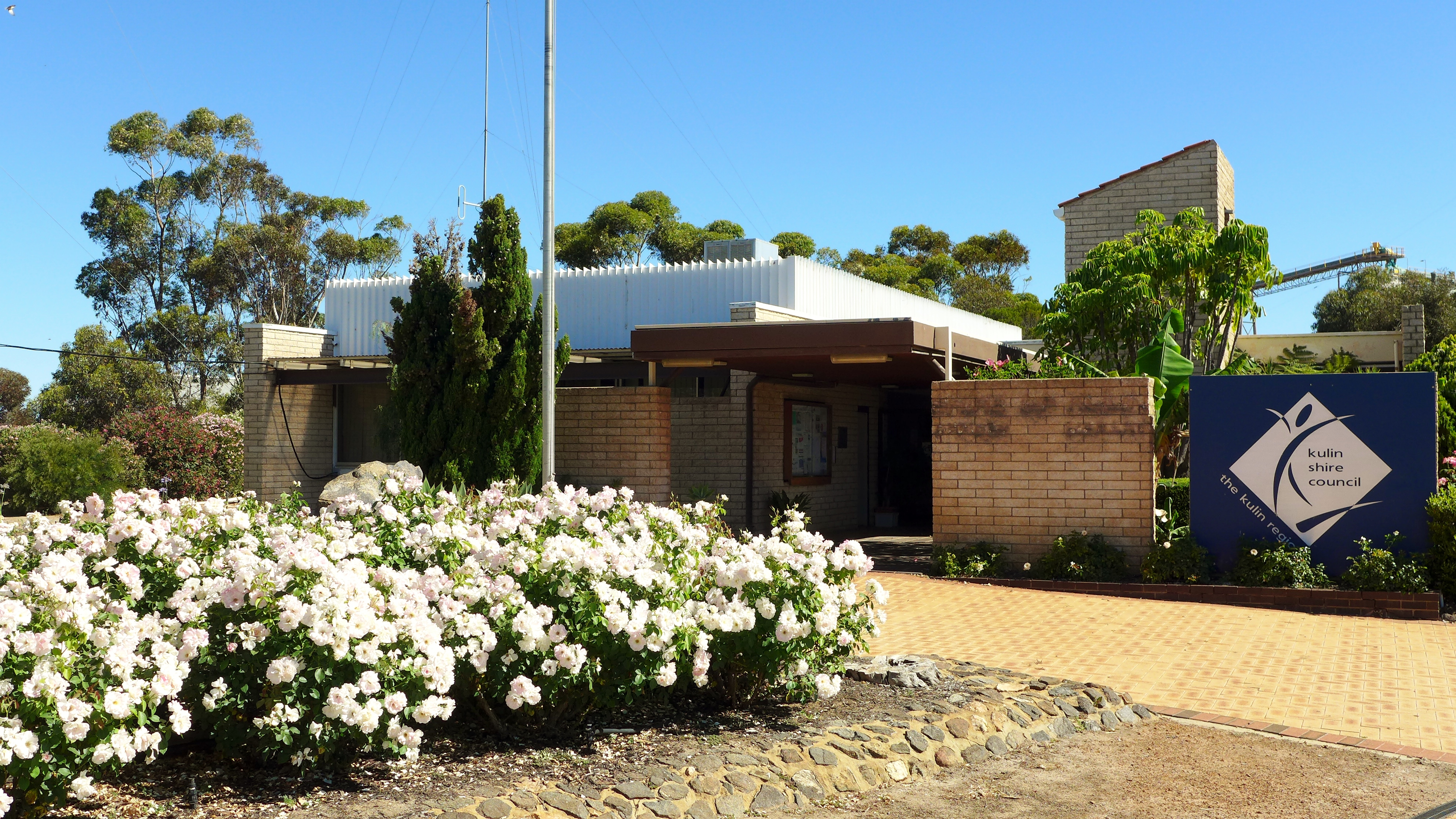 View of the Kulin shire offices, Johnston Street, Kulin, Western Australia.